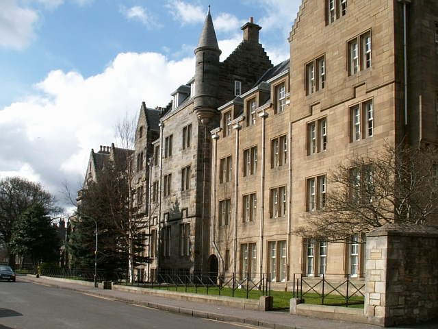 St Regulus Hall, St Andrews. From Queens Terrace these buildings belong to the university